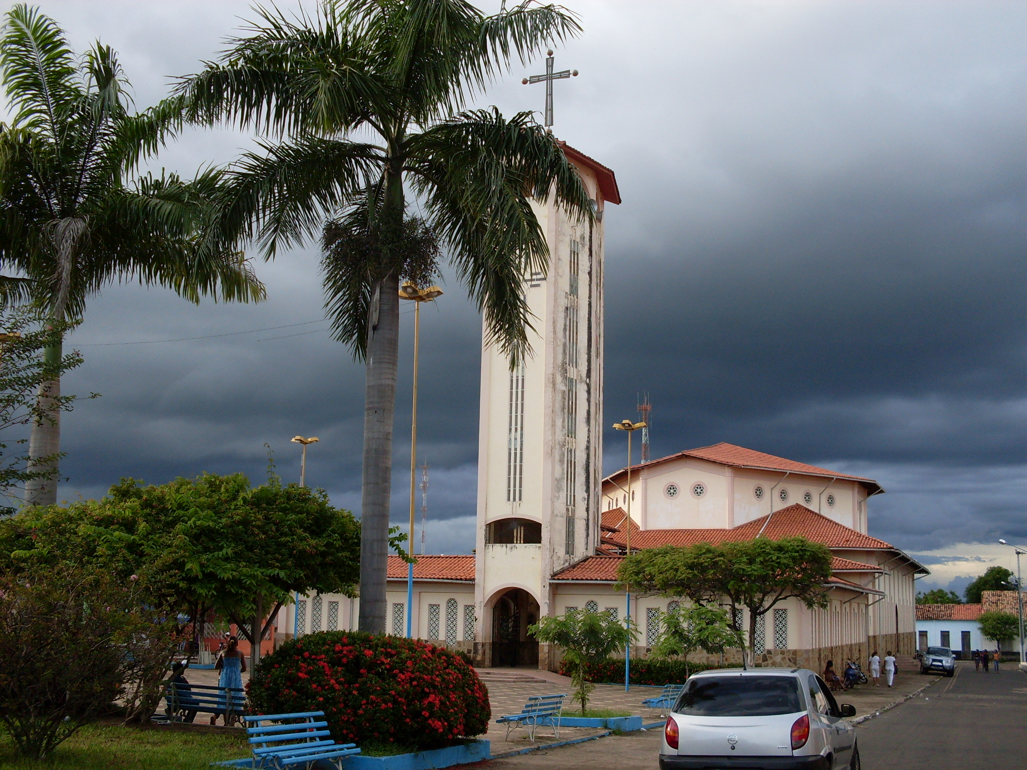 View of the Our Lady of Piety Cathedral, in Coroatá, Maranhão, Brazil.